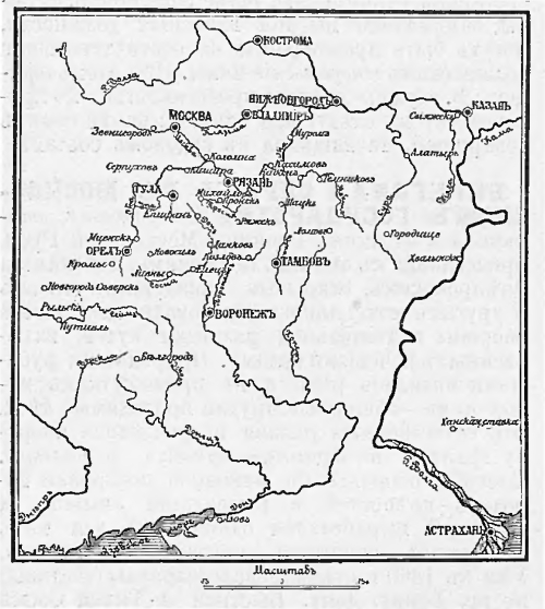 fort.